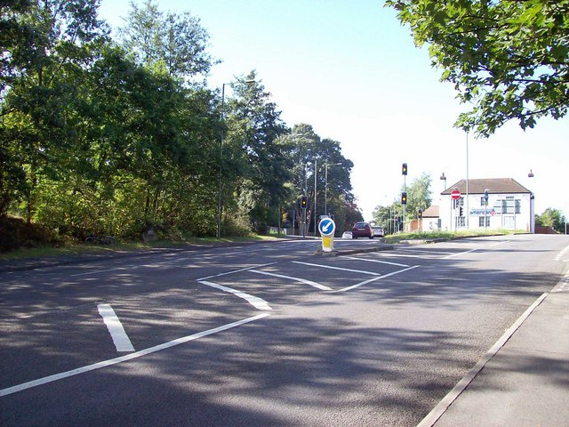 Jolly Farmer roundabout & Basing Stone This is where the A30 separates into the Old Portsmouth Road, (left fork), and the A30 through Camberly (right fork). Situated on the roundabout is a golf pro shop which used to be the Jolly Farmer pub. Originally this was a posting inn situated at the top of the long drag up from Bagshot. The inn was originally called "The Golden Farmer" after a local farmer whose source of wealth was a mystery, until a highwayman was captured and found to be one and the same person ! The Basing Stone, which marks the parish boundary can be seen on the left hand side of the road.